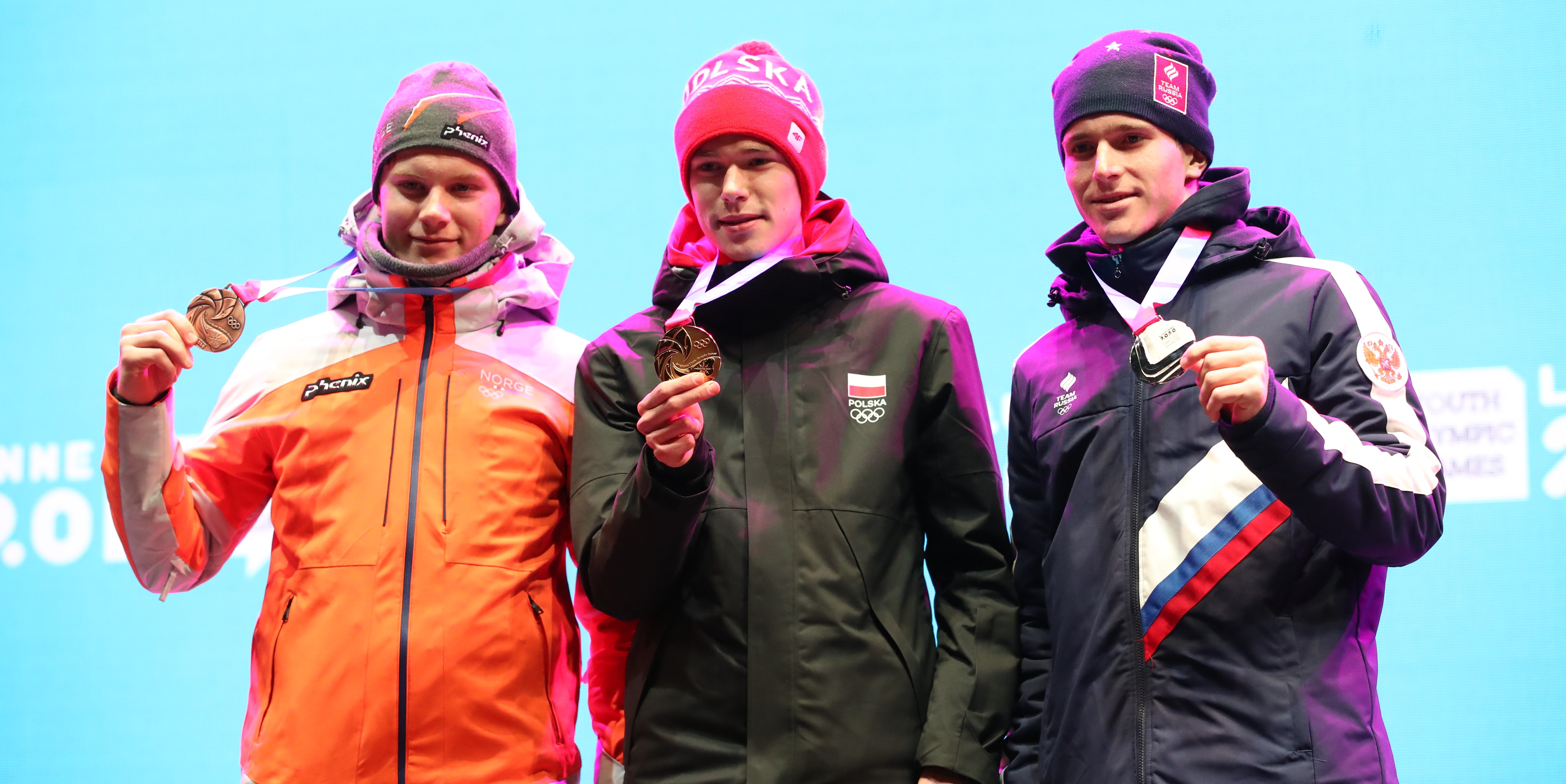 Medal Ceremony Day 5, 2020 Winter Youth Olympics in Lausanne